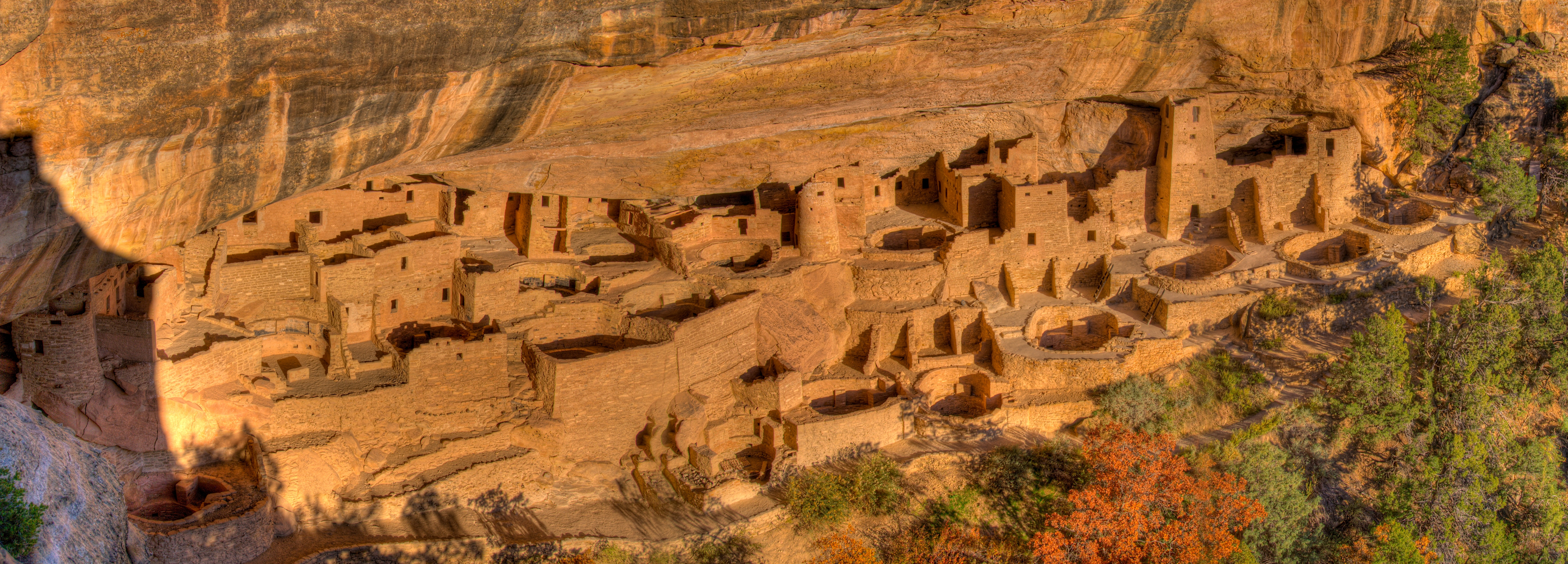 In Mesa Verde, CO -- taken about an hour before sunset. HDR panorama.